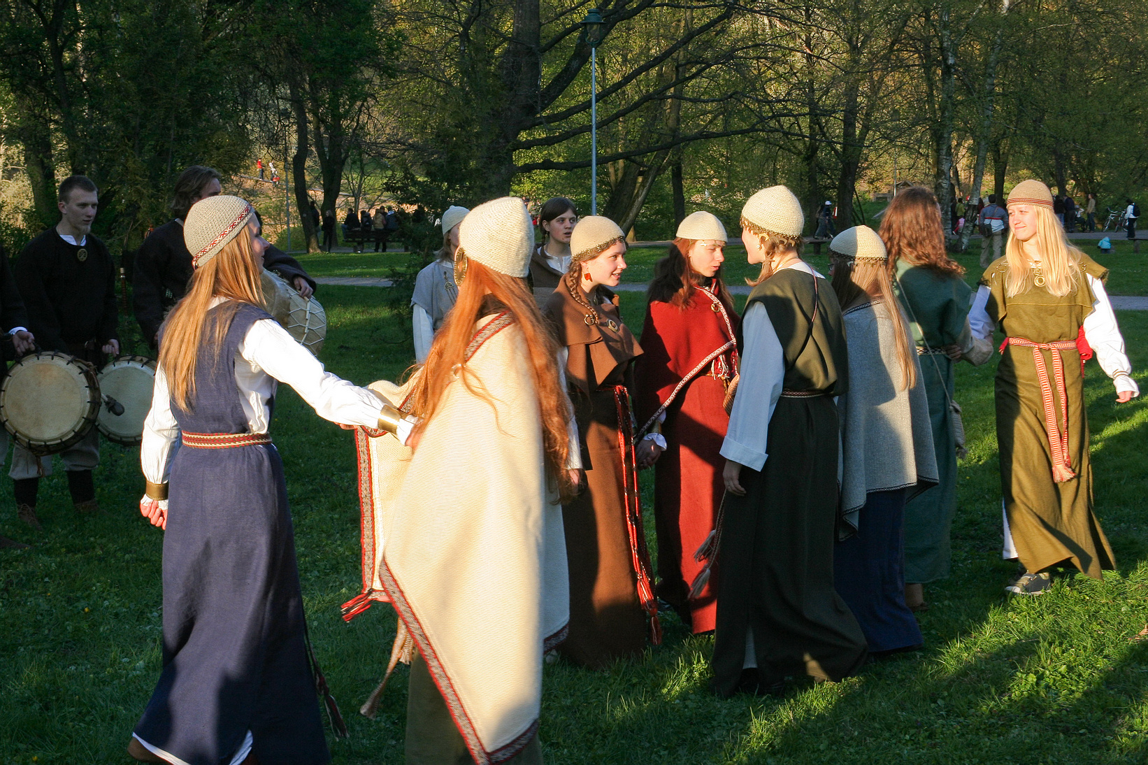 Lithuanian folk music band performance during the Street Music Day festival